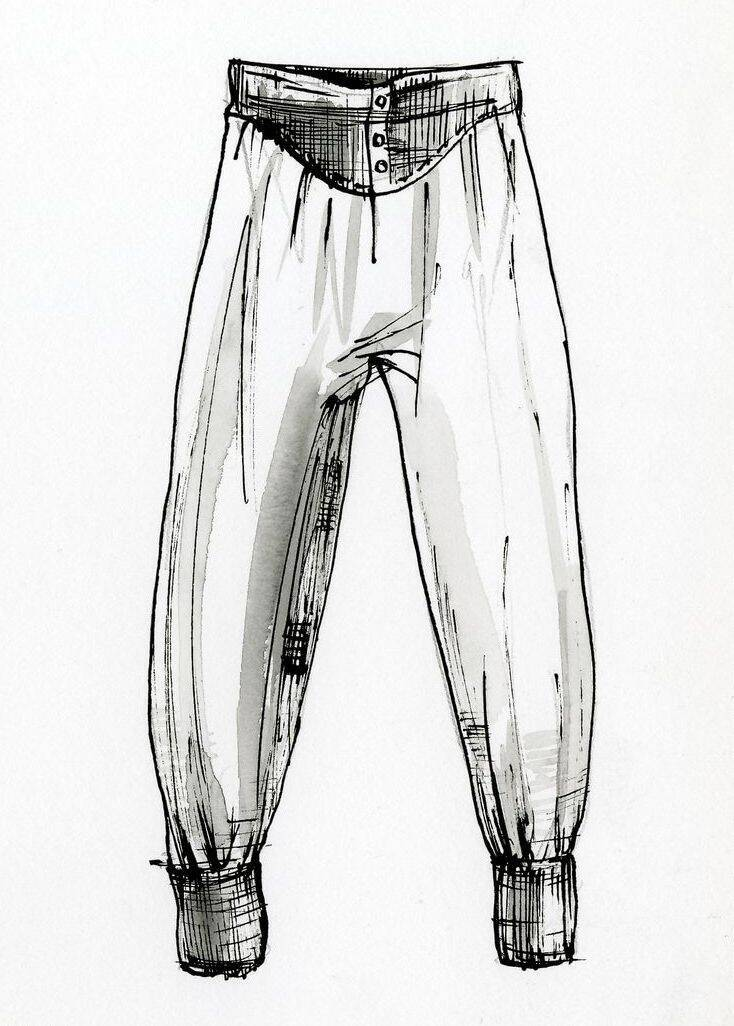 The description of the concept in this drawing is: Garments worn next to the body and under main garments having leg openings or short or long legs. (AAT)